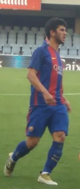 Carles Aleñá during Barcelona B game in 2017